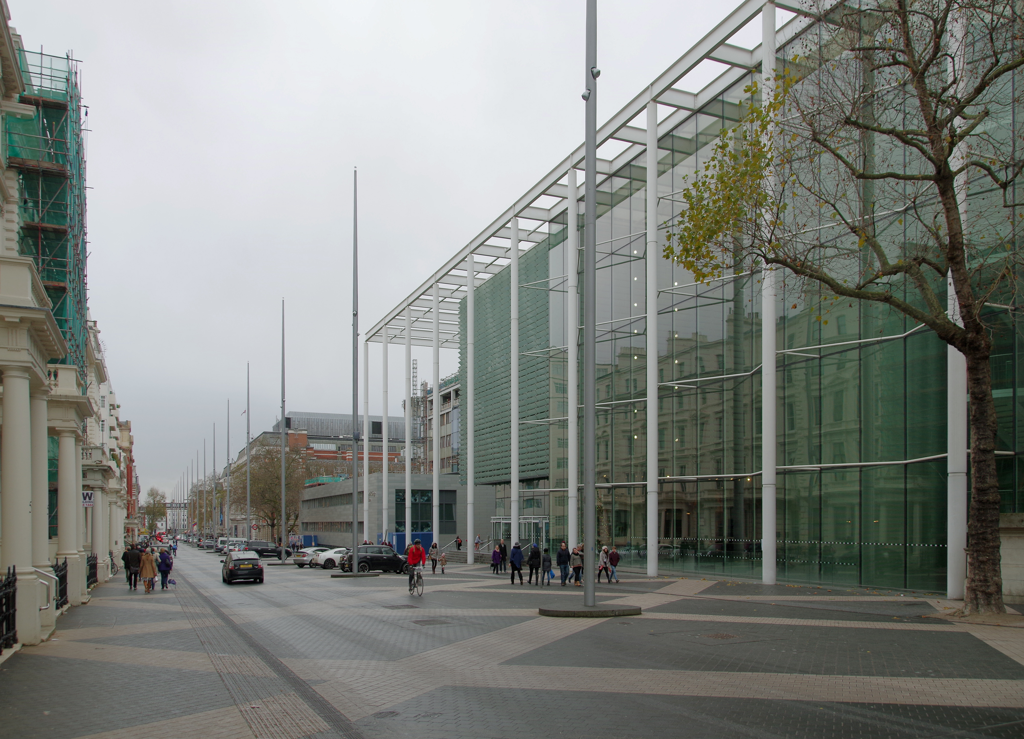 Part of the Imperial College London premises on Exhibition Road.